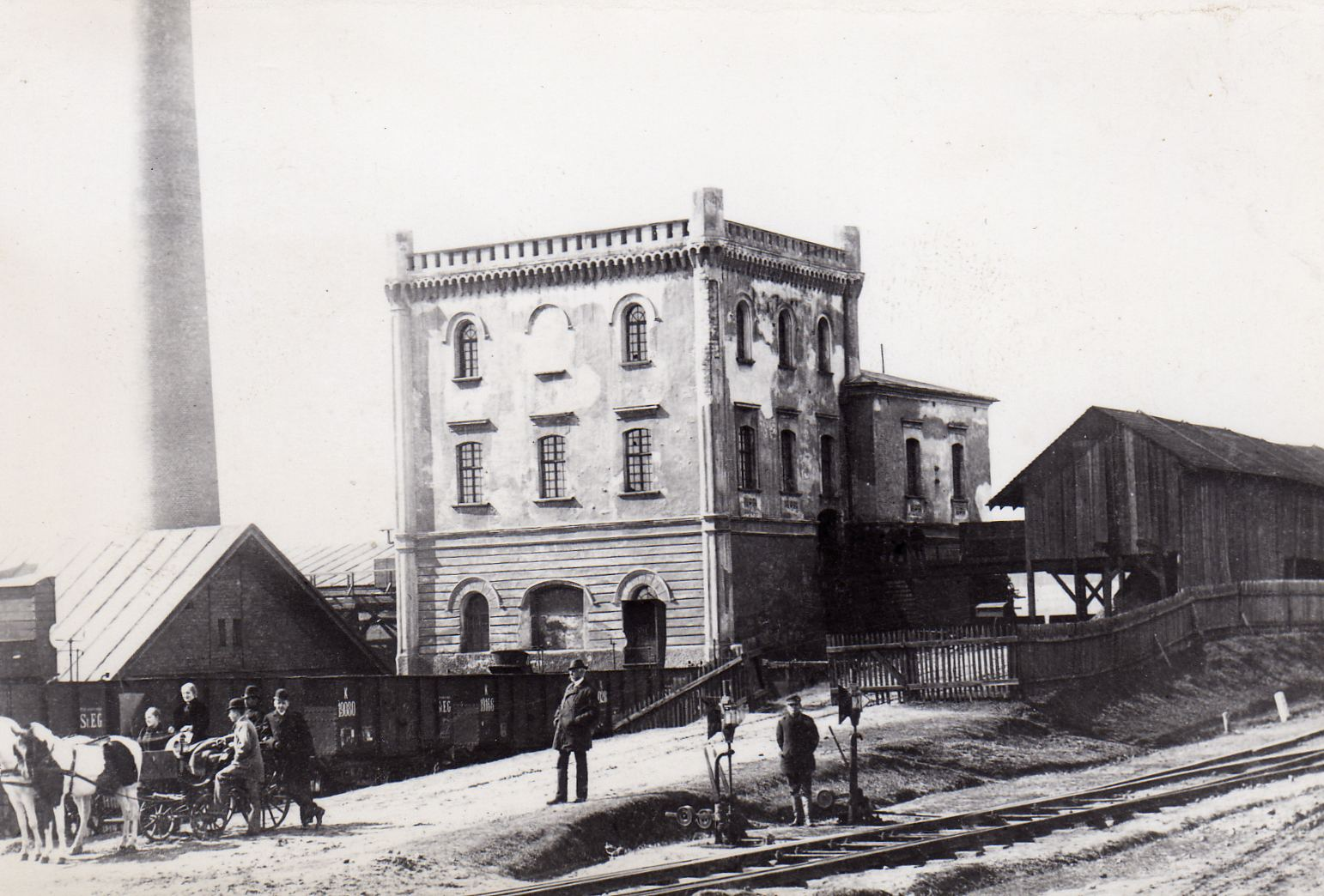 Simson Mine, Zbýšov, Czech Republic